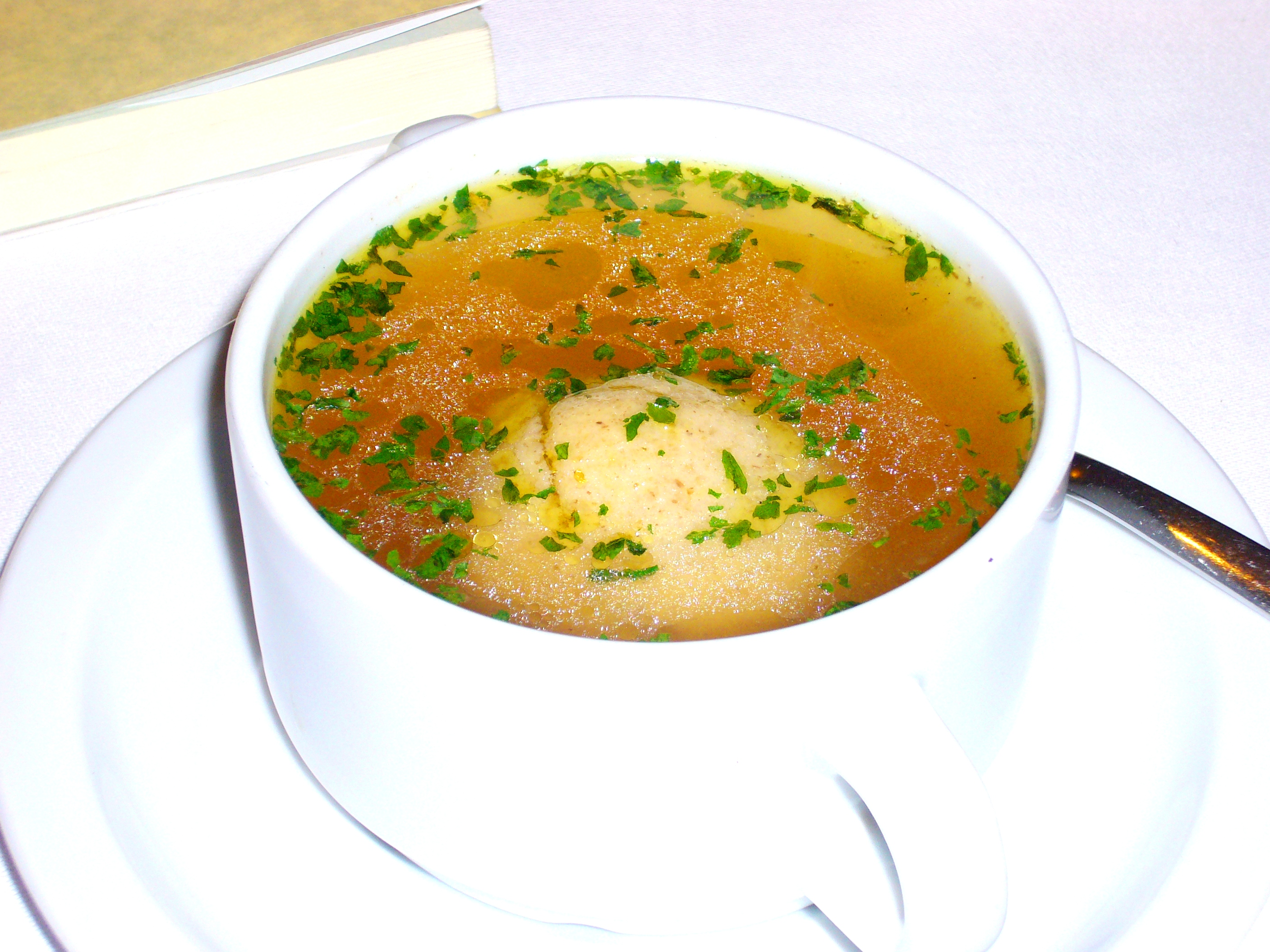 Alef Alef, Seitenstettengasse 2, Innere Stadt, Vienna 1 [1] [2]